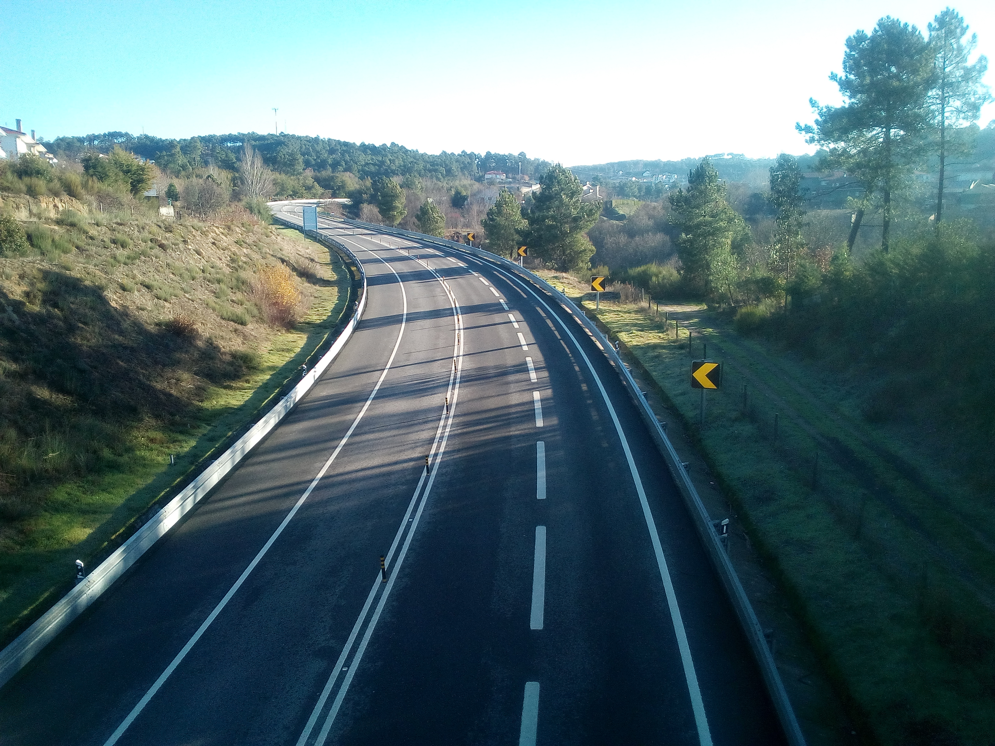 IP4 road in Vila Real, Portugal